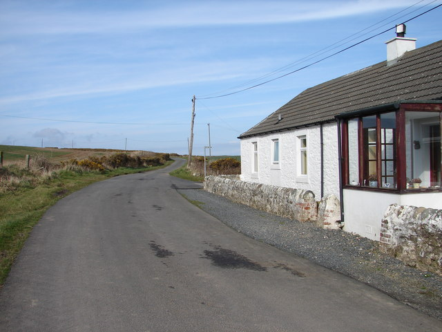 East Cairngaan Cottage Remote cottage situated on the lane from Mull School (B7041) to Cardrain. Nearby is Jenny Smit's Well, a natural spring.